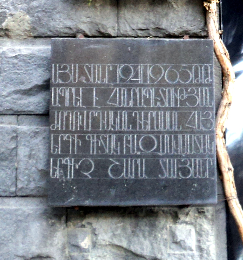 Shara Talyan's plaque